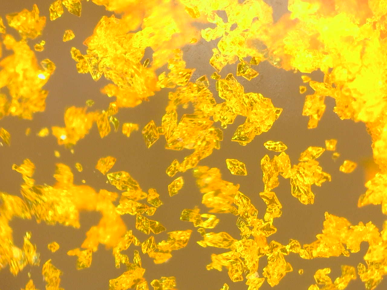 Crystals grown by 2nd year UCL undergraduate chemistry students.